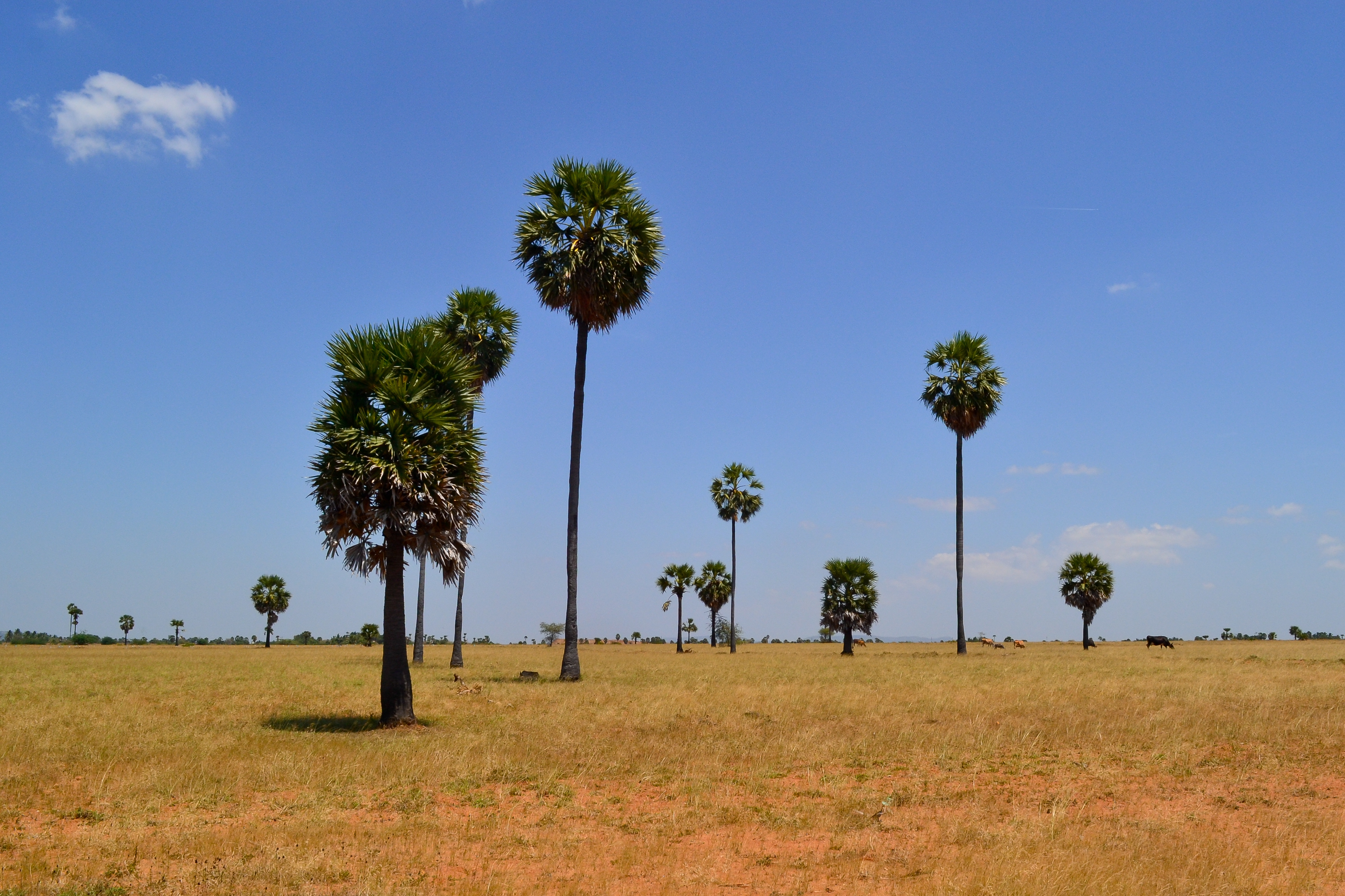 Landscape of rural Tirunelveli with Asian Palmyra palms.